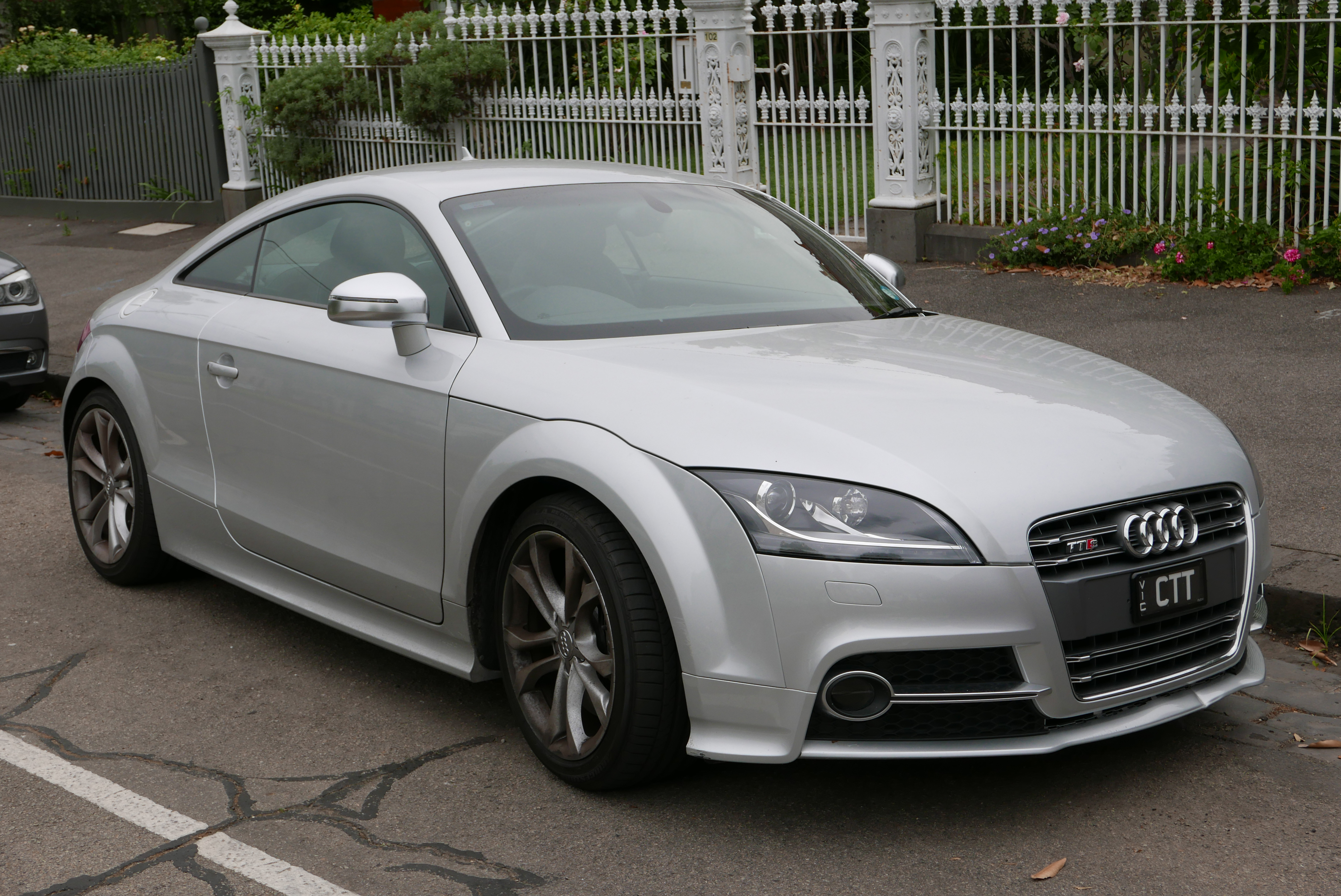 2014 Audi TTS (8J MY14) quattro coupe. Photographed in Princes Hill, Victoria, Australia. Vehicle registration enquiry resultsJurisdictionVictoriaRegistrationCTTChassis codeTRUZZZ8J4E1018412Engine codeCDL102260Compliance date2014-07Year of manufacture2014